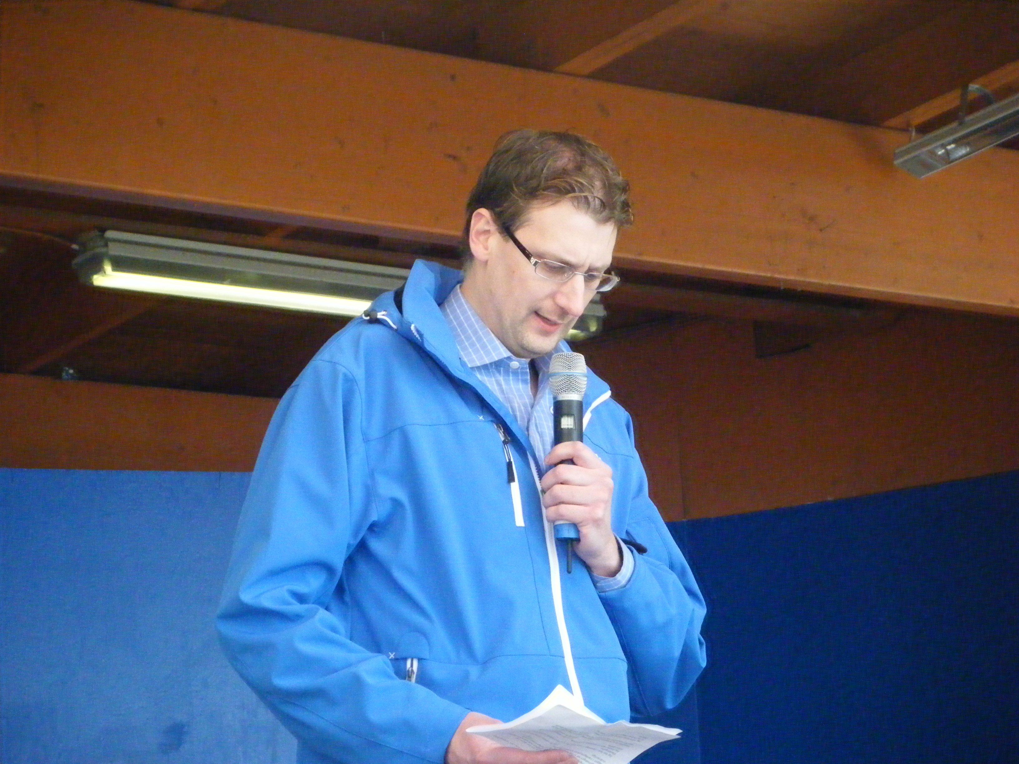 Mayor for Huddinge, Sweden from 2009